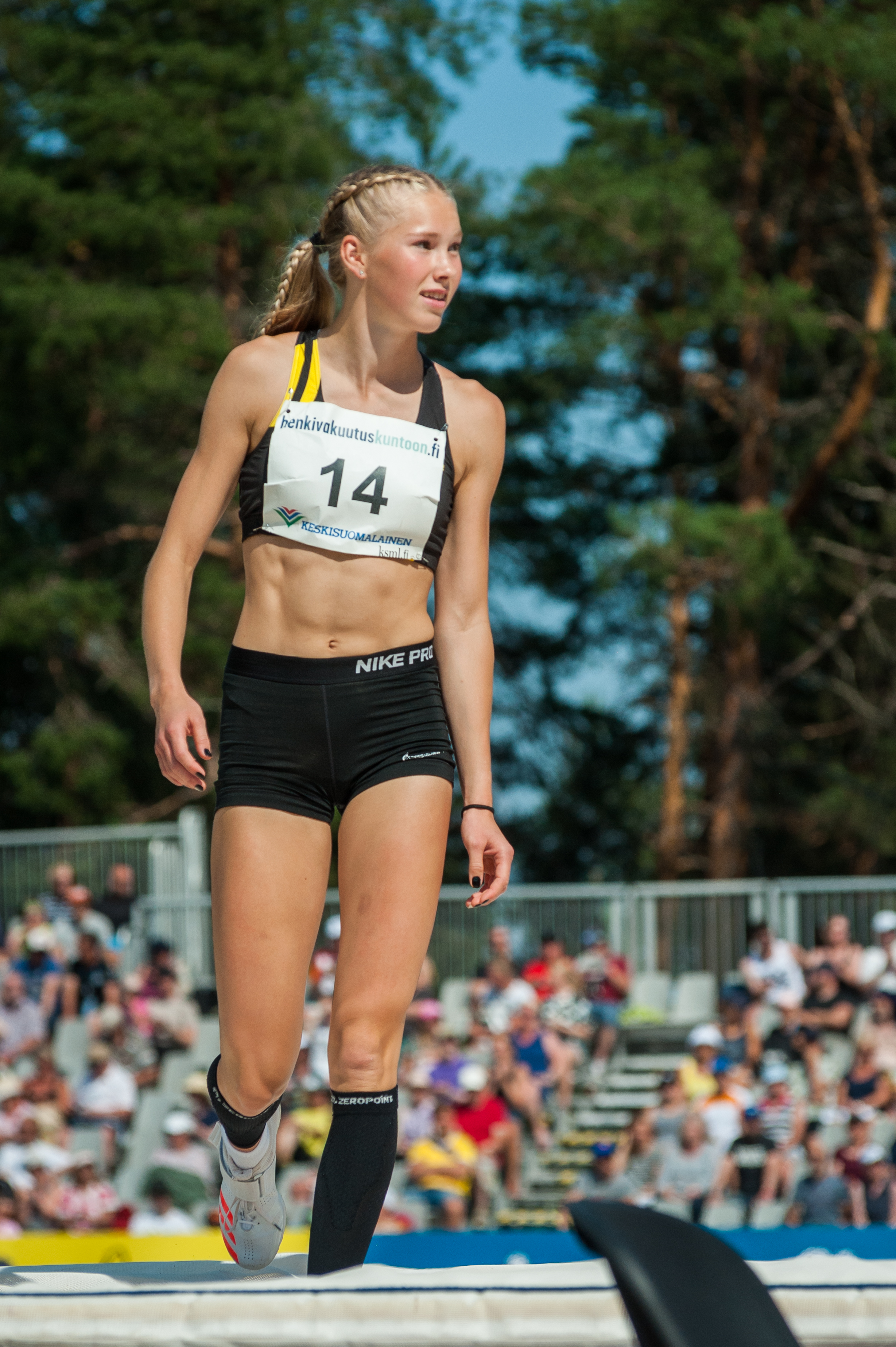 Women's high jump competition at the 2018 Kalevan Kisat, the Finnish championships in athletics, in Jyväskylä, Finland.